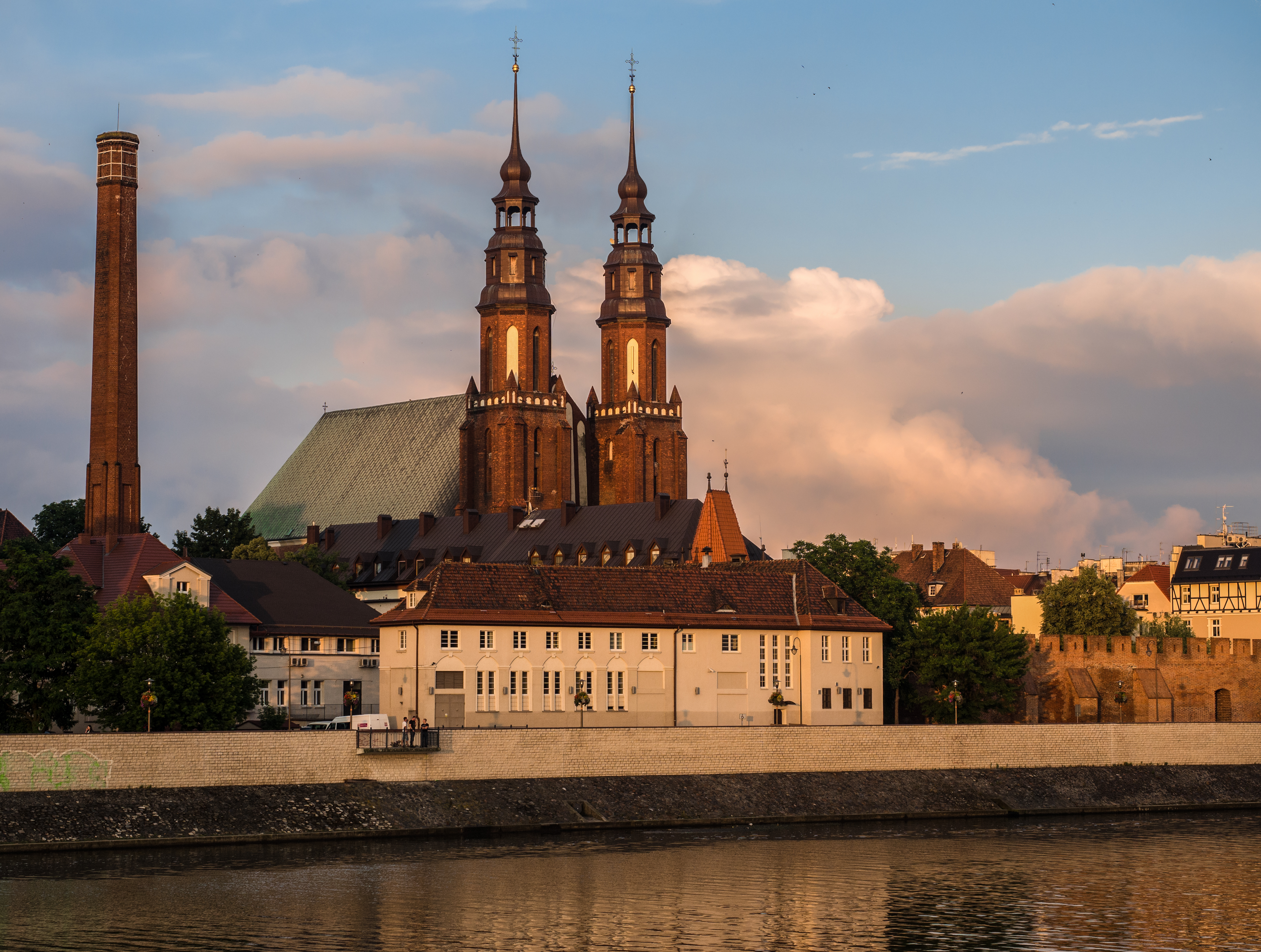 Opole, Poland - cathedral church